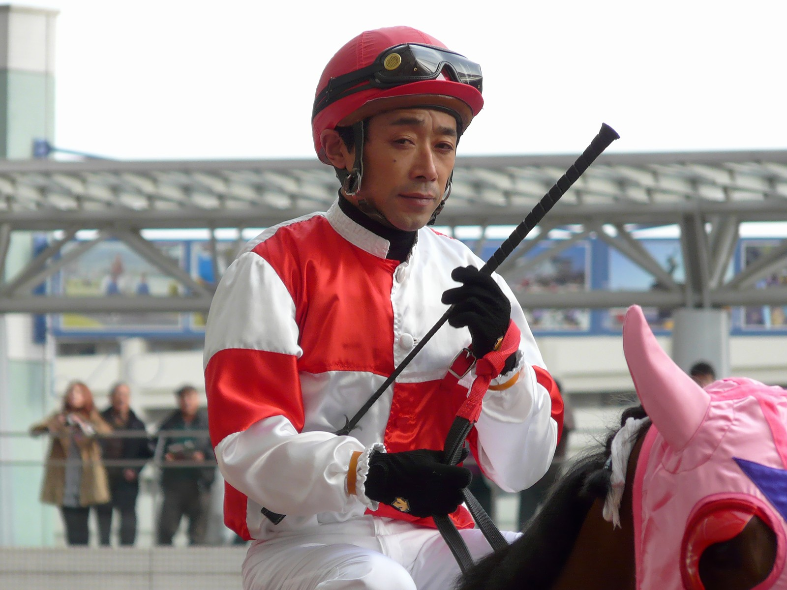 Naomi-Tobe